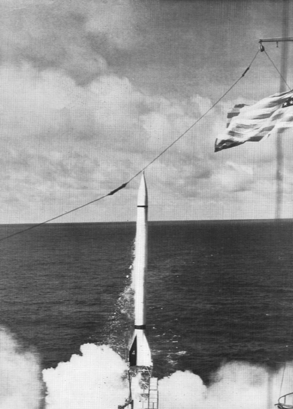 Launch of the U.S. Navy Viking 4 rocket, on 11 May 1950, from the deck of the USS Norton Sound (AV-11) in the Pacific Ocean near the Equator. After modifications in February and March 1950 at San Francisco Naval Shipyard, Norton Sound launched a five-ton Viking rocket 11 May in "Project Reach". This rocket carried a 227 kg instrumentation package to an altitude 171 km, and provided data on cosmic rays. Viking 4 reached almost the maximum possible height for the payload flown, in a nearly perfect flight. Project "Reach" concluded the first phase of Norton Sound's use as a missile platform.